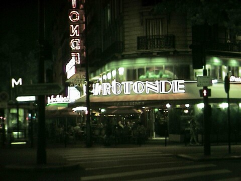 Café La Rotonde in Montparnasse photographed in 2002 by Jeremy J. Shapiro